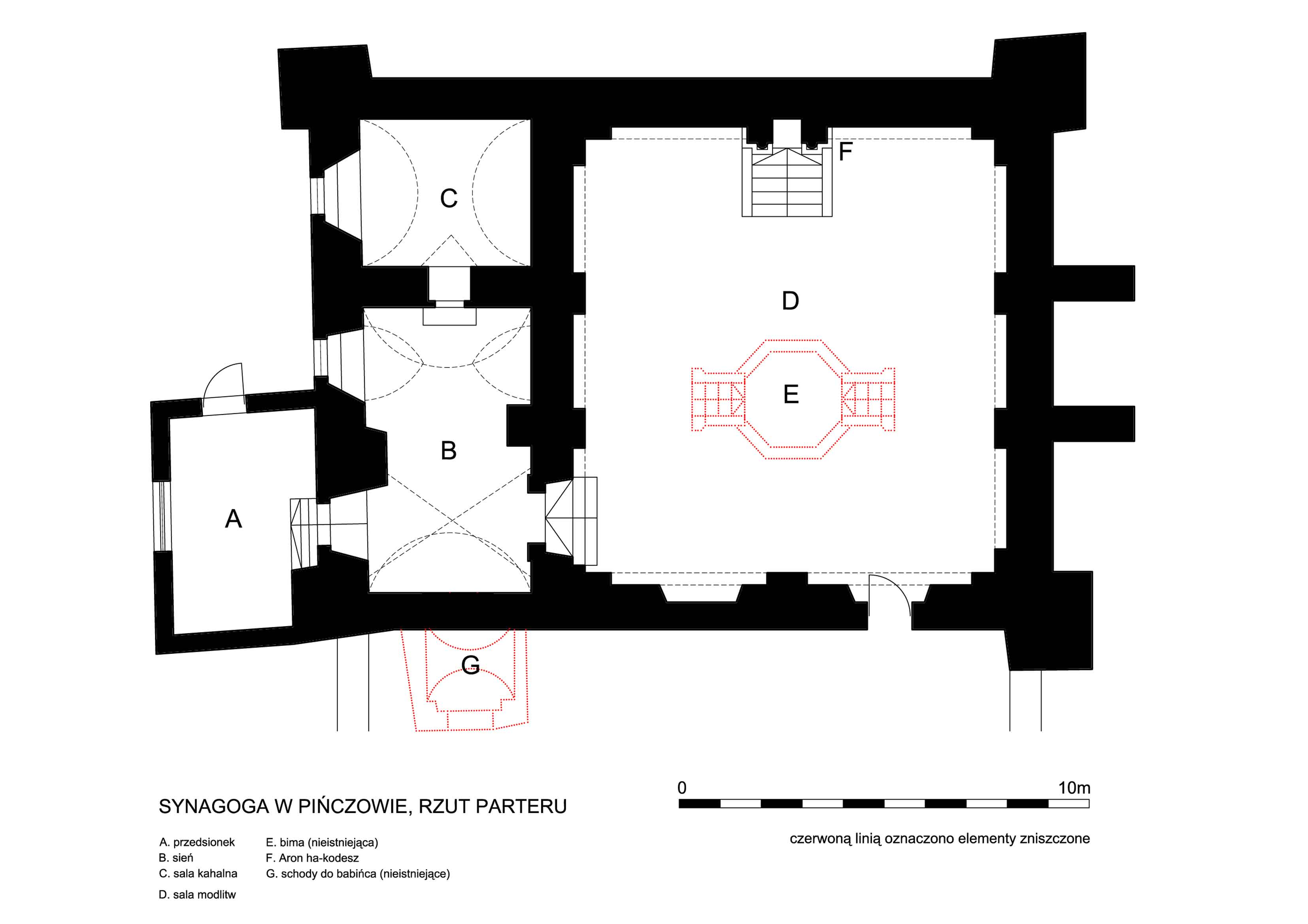 Synagogue in Pińczów - ground floor plan